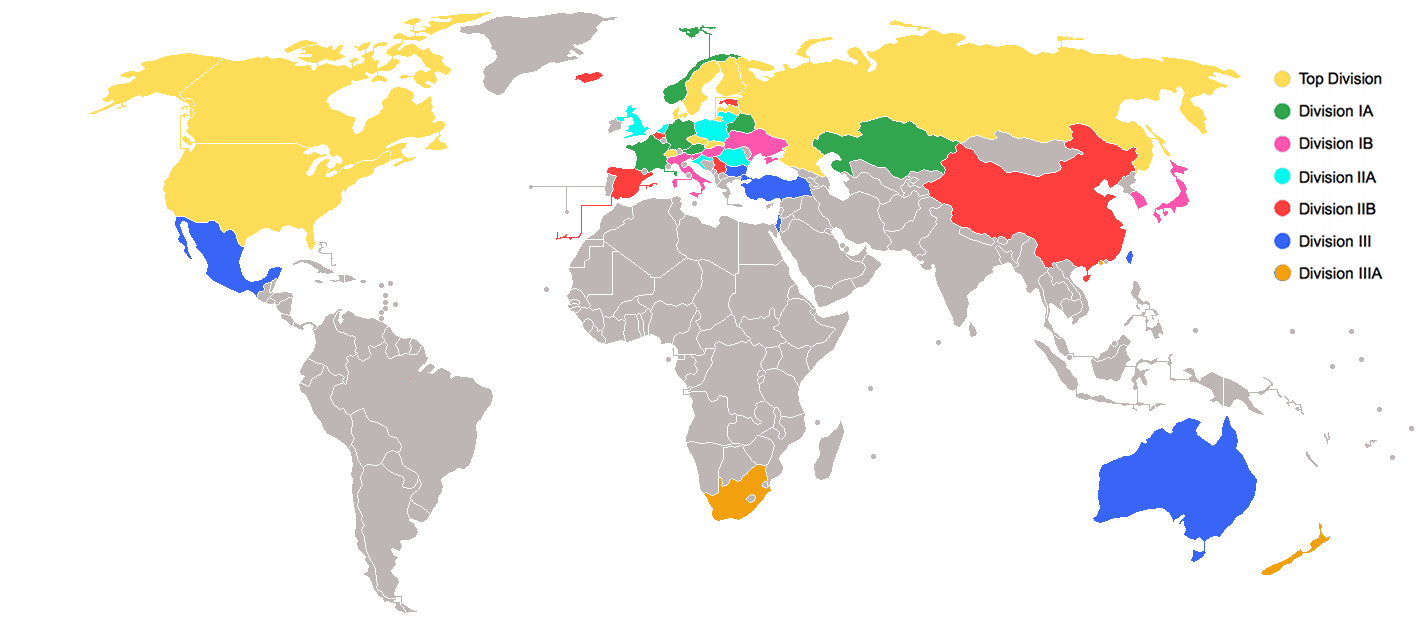 Nations participating at 2016 IIHF World U18 Championships